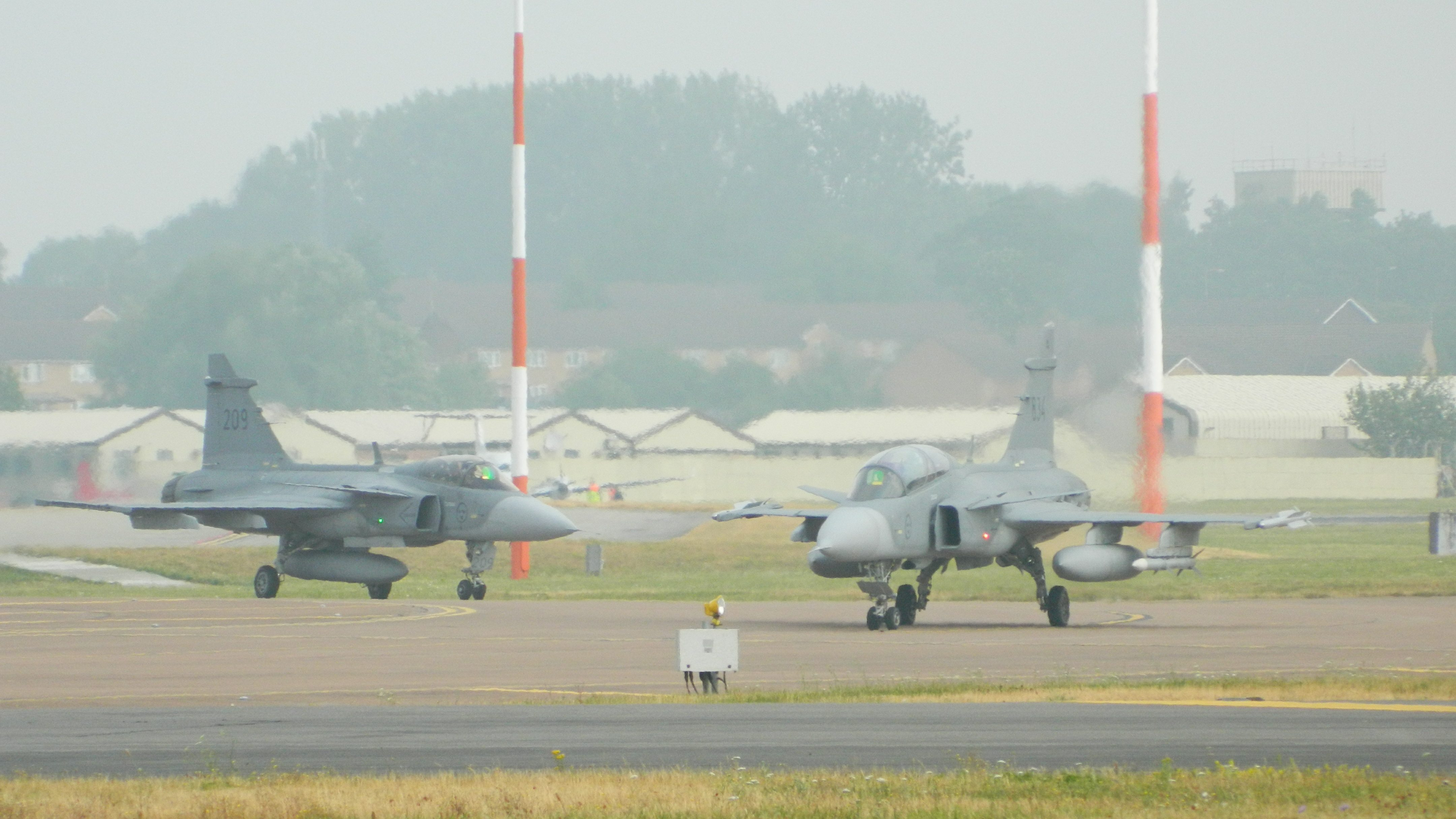 Swedish Air Force SAAB JAS-39 Gripens prepare to depart from RAF Fairford on Monday 22 July 2013, the Royal International Air Tattoo departure day.